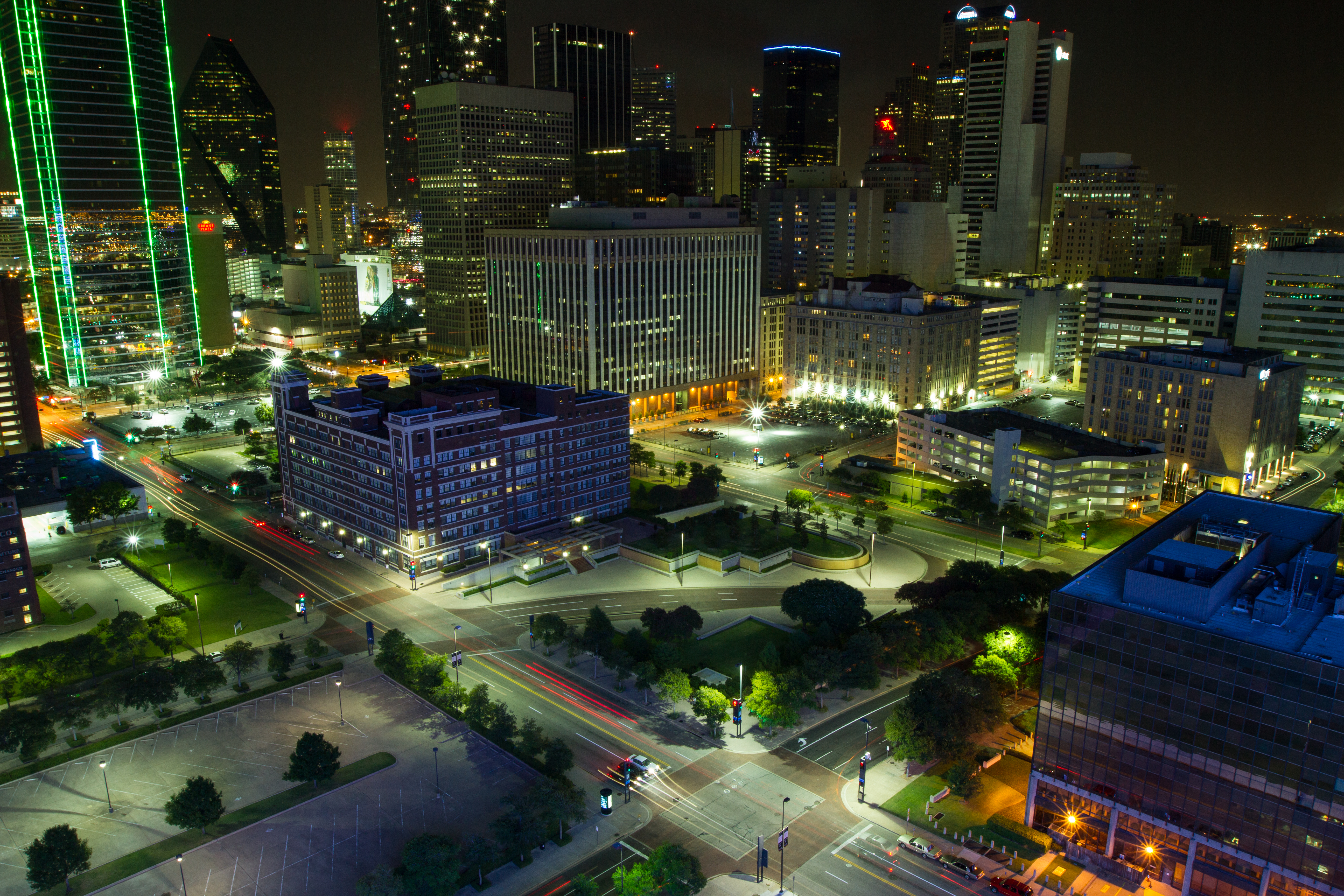 Downtown Dallas night at the corner of Young and Lamar.